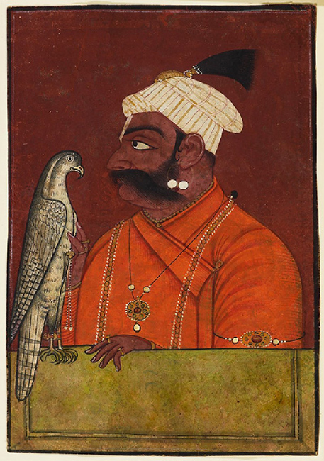 Indian king Maharaja Suraj Mal(r.1613-1618) of Nurpur with a hawk